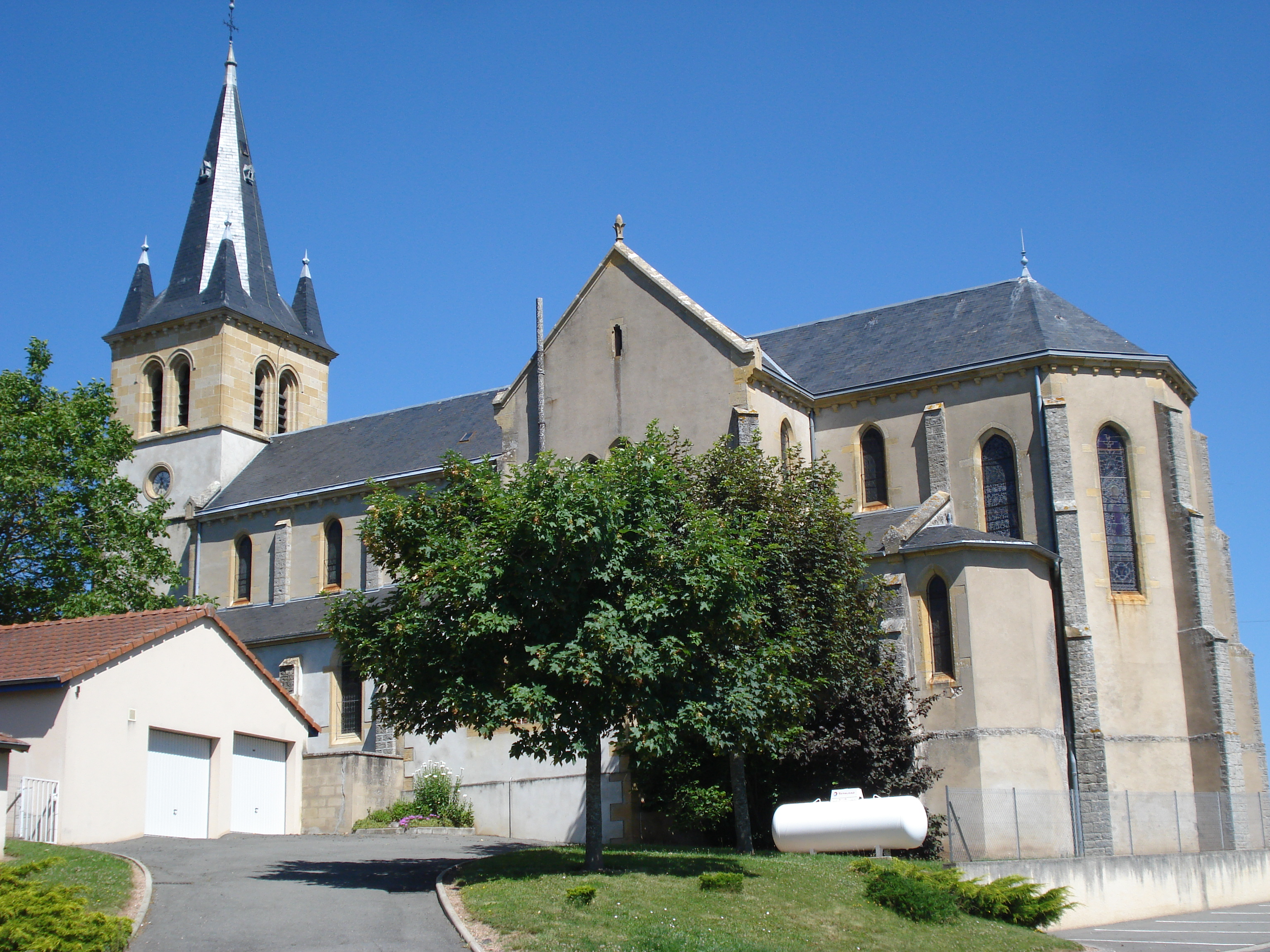 church of Uxeau, Saône-et-Loire, FR.